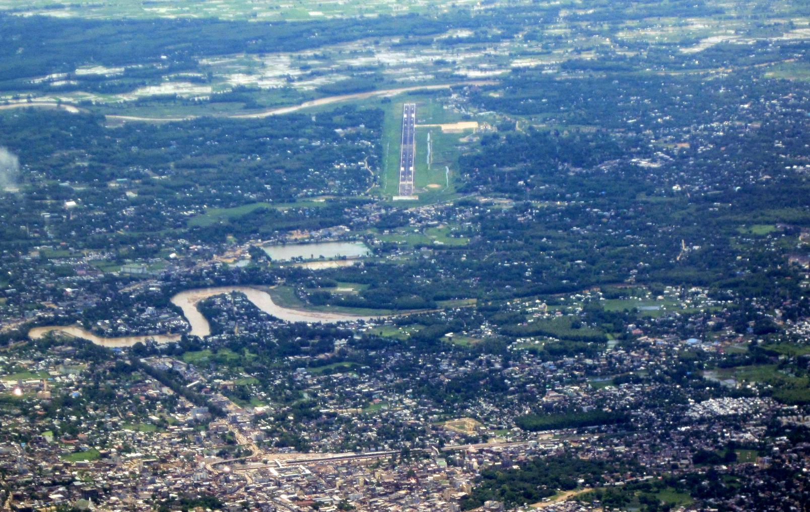 Visual approach DMU on runway 12 in an Airbus A320-200. The first and second approaches went missed due to adverse wind conditions.